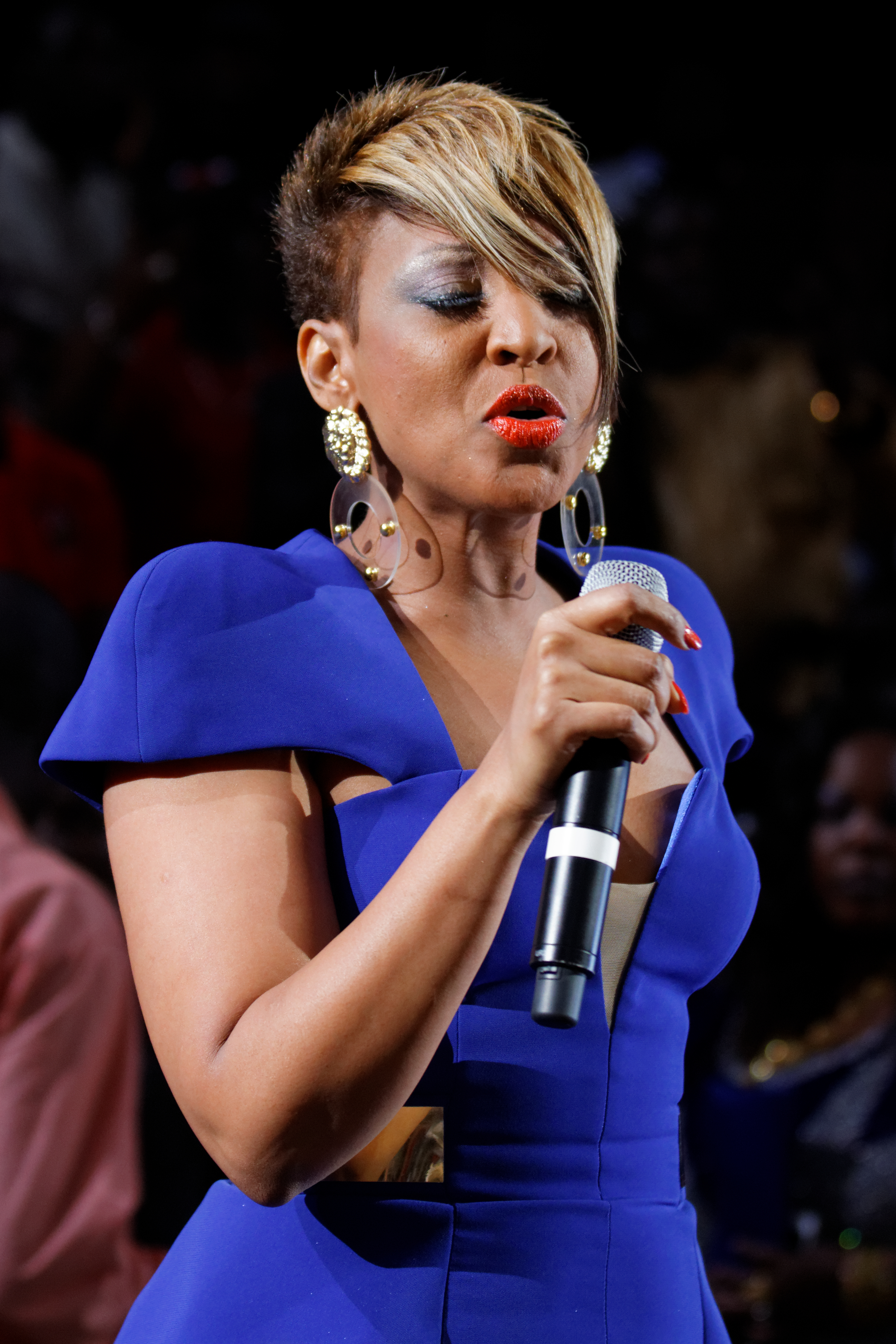 World African Wrestling world tour, Paris Bercy. Viviane Chidid senegalese singer.